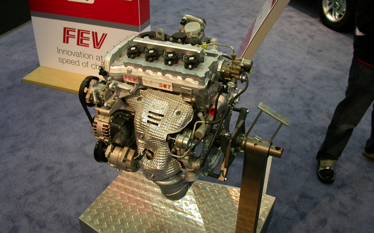 Gasoline direct injection engine prototype